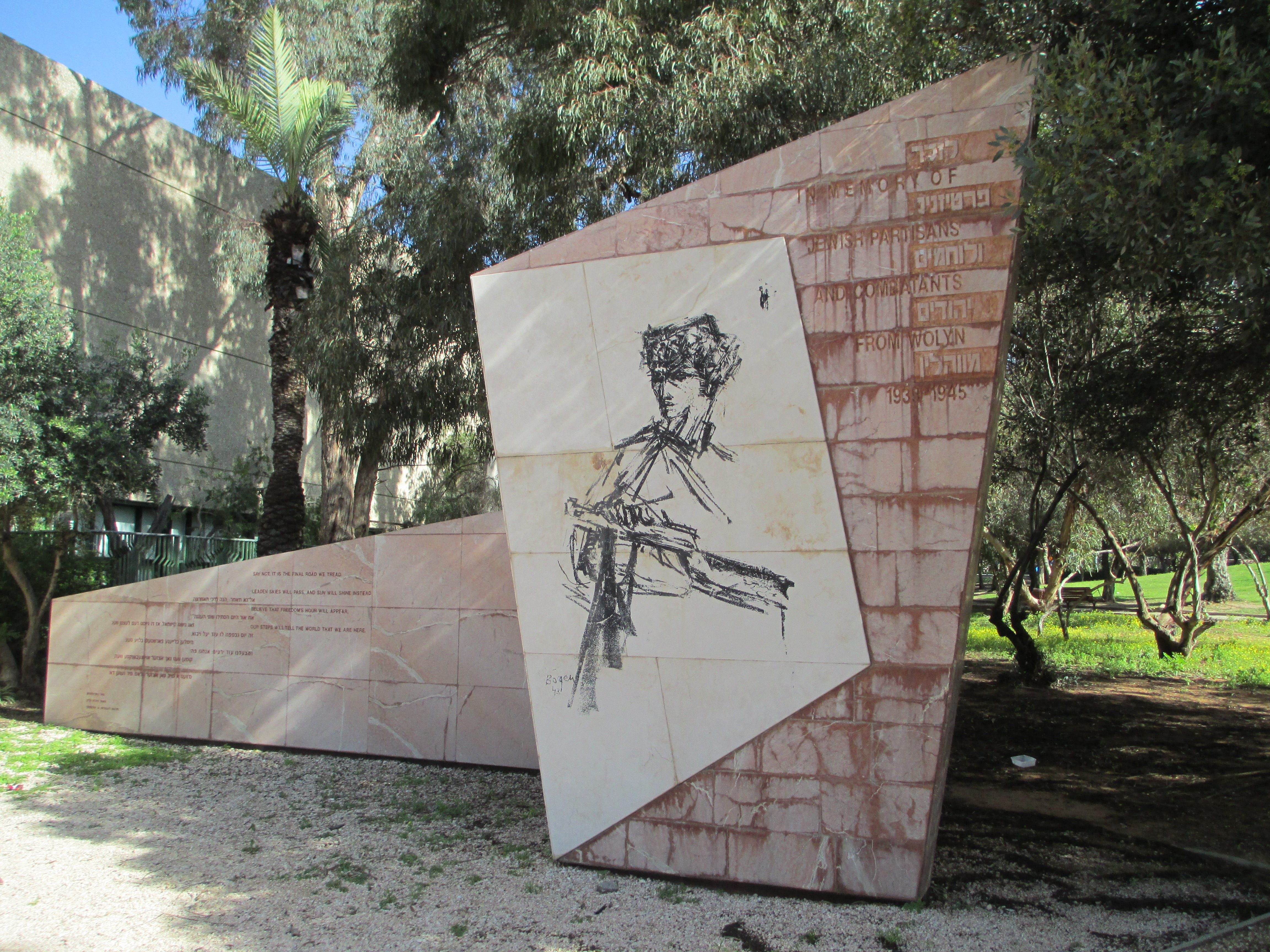 Memorial to the Jewish Partisans from Wolyn region in Givatayim, Israel